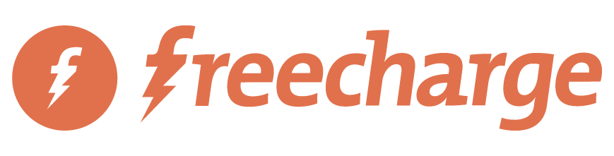 FreeCharge Logo